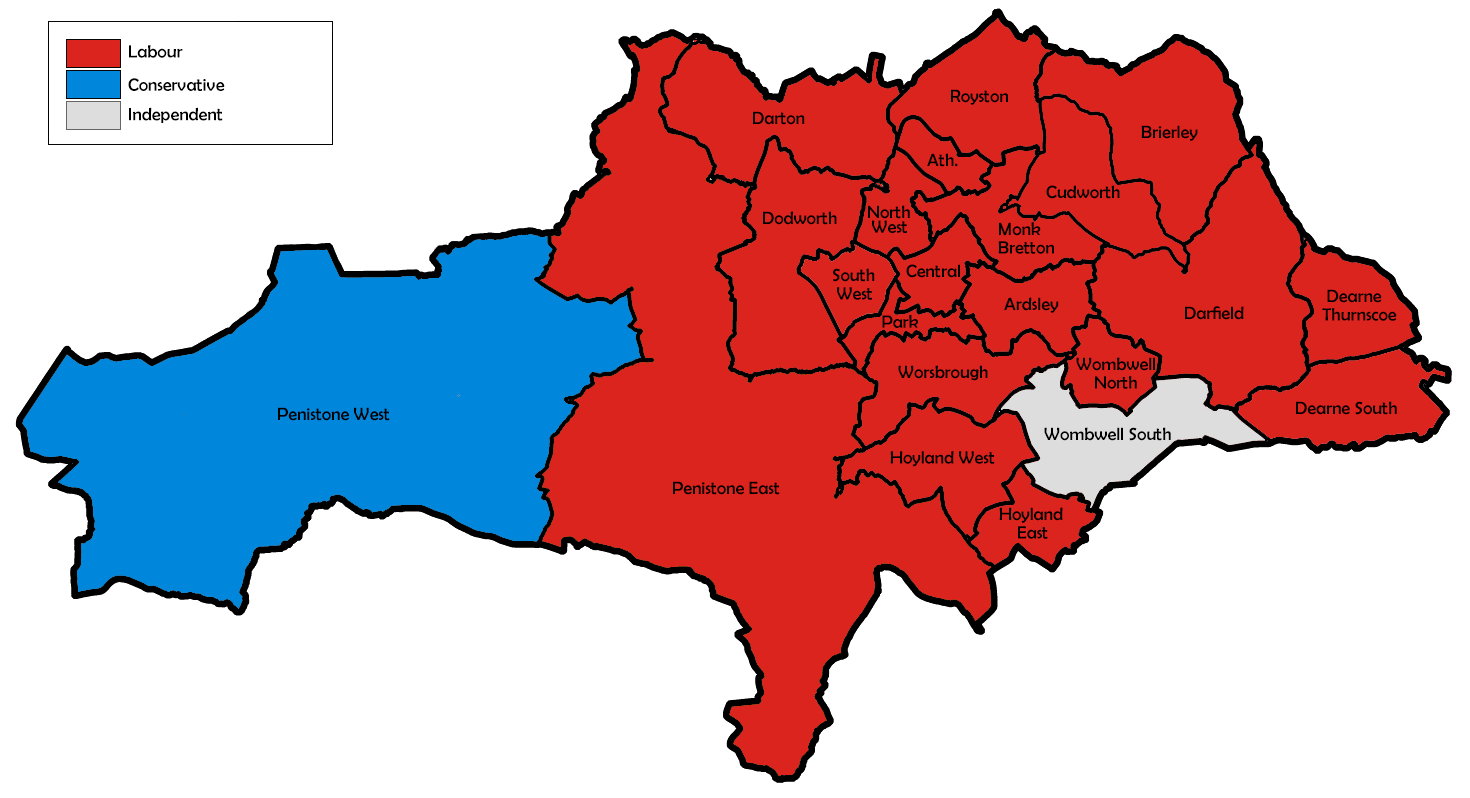 Ward map of Barnsley council with political colouring for the 1988 election.